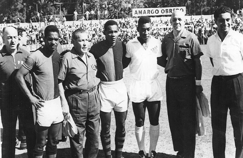 International friendly match at Parque Independencia, Newell's v. Santos FC.